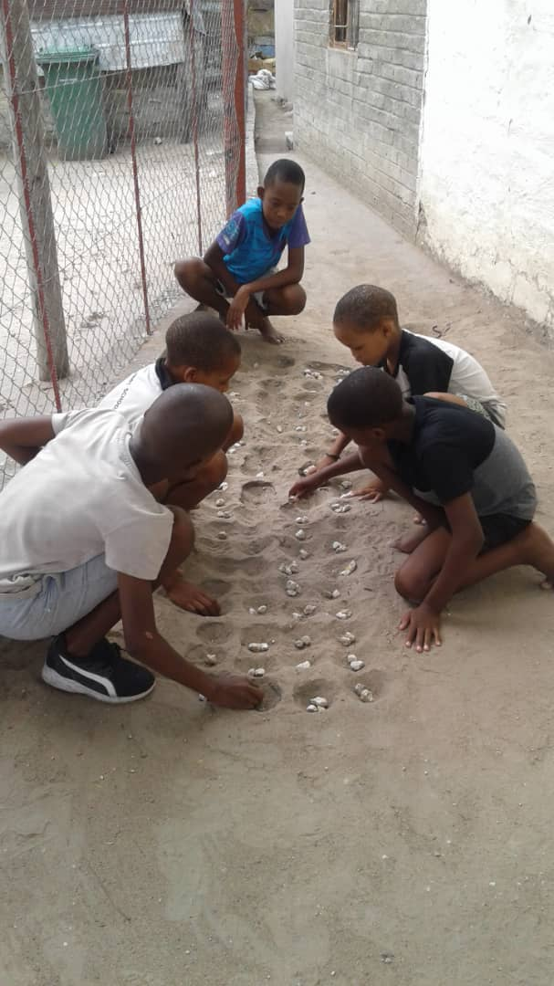 This is an image with the theme "Play" from: Namibia